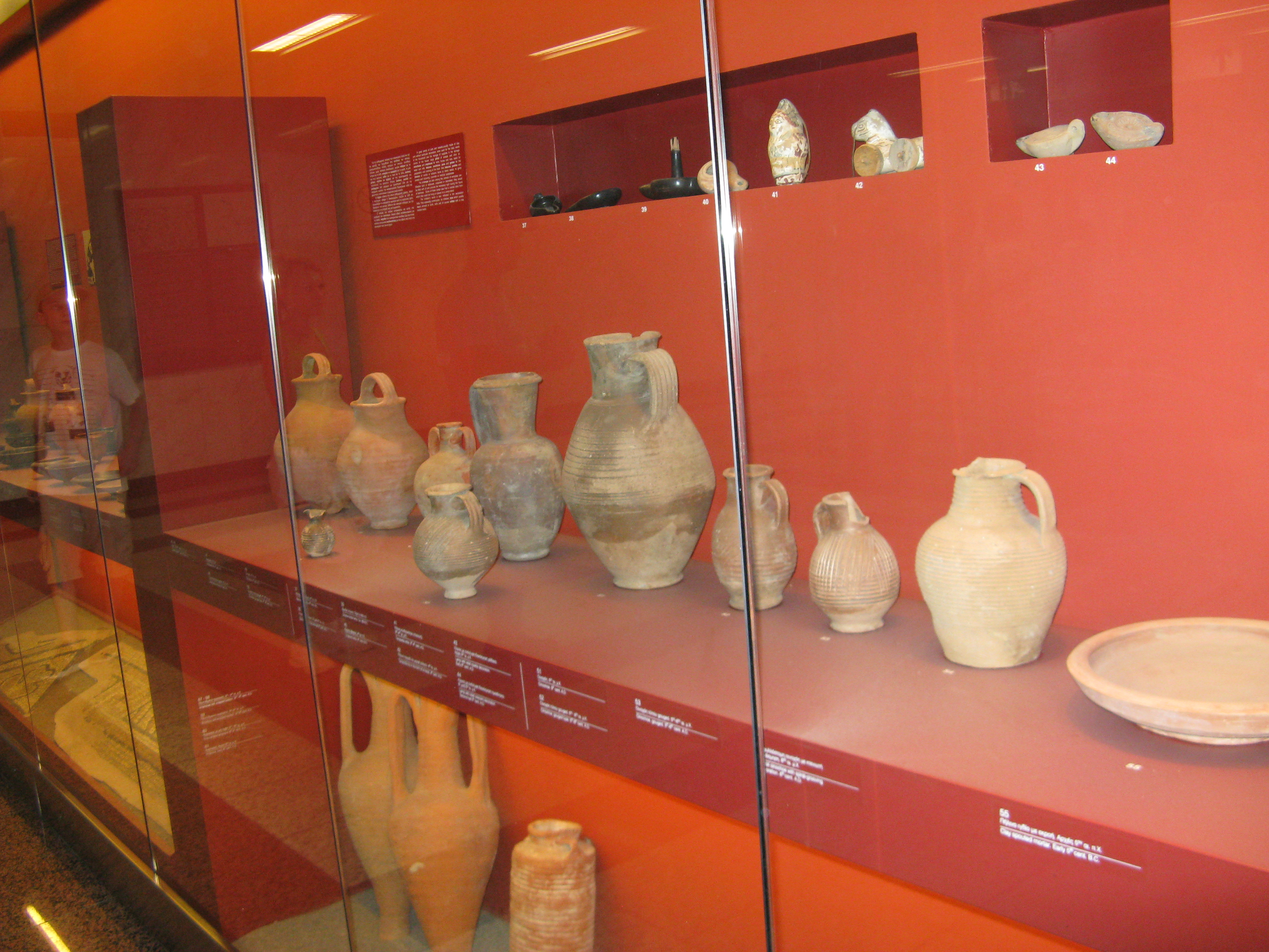 Acropolis station (Athens metro)